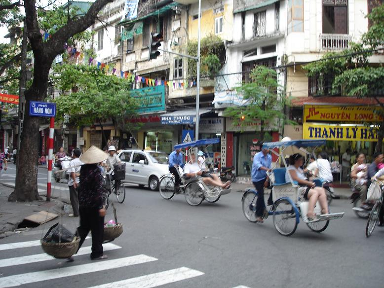 Crossing at Pho Hang Non in the Old Quarters of Hanoi, Vietnam.